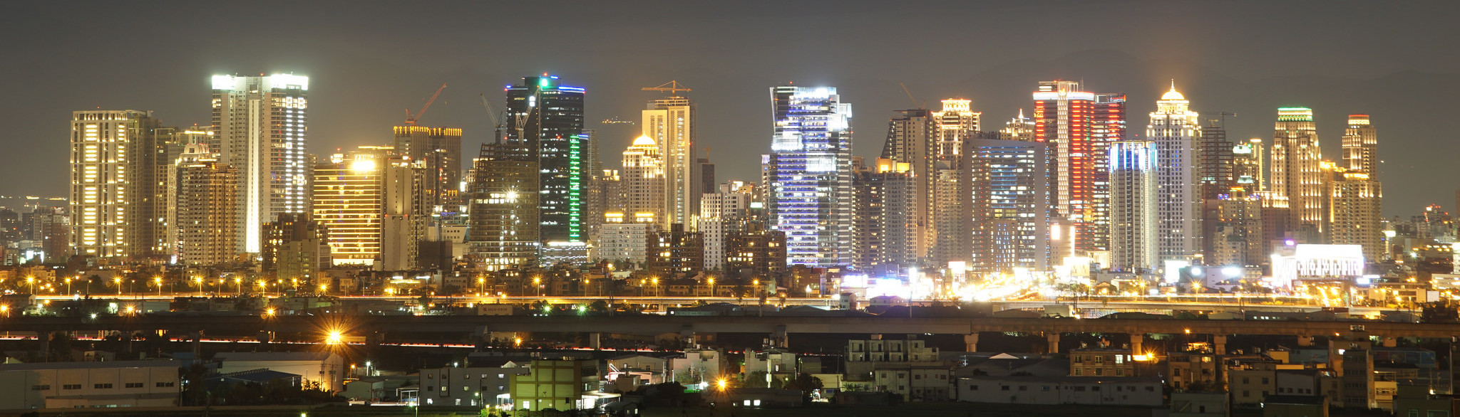 Taichung's 7th Redevelopment Zone Skyline in 2017